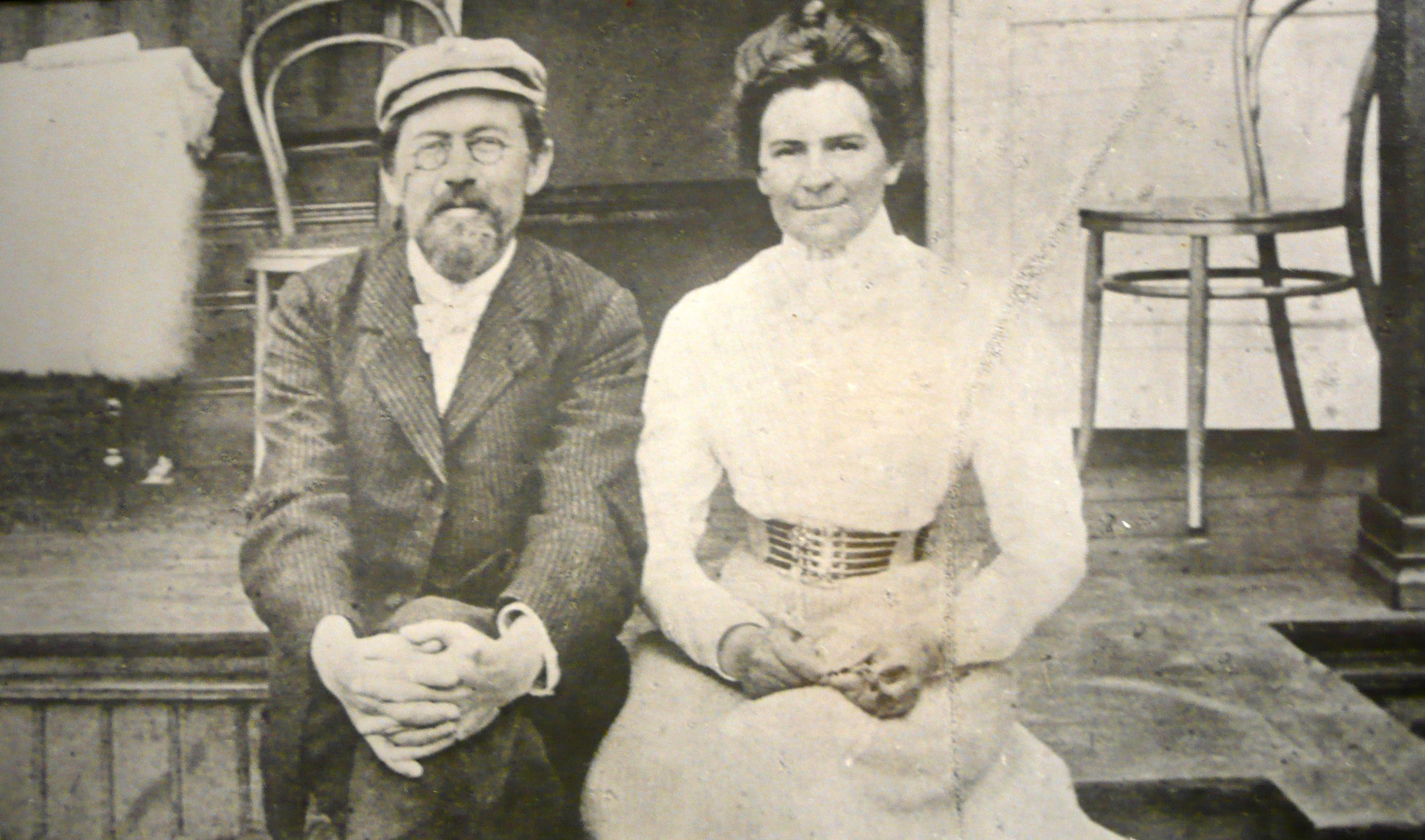 Anton Checkov and Olga Knipper in May 1901 during honeymoon, eventually they married on 25 May 1901 at the Church of the Exaltation of the Cross; photo taken in the Chekhov museum in Badenweiler